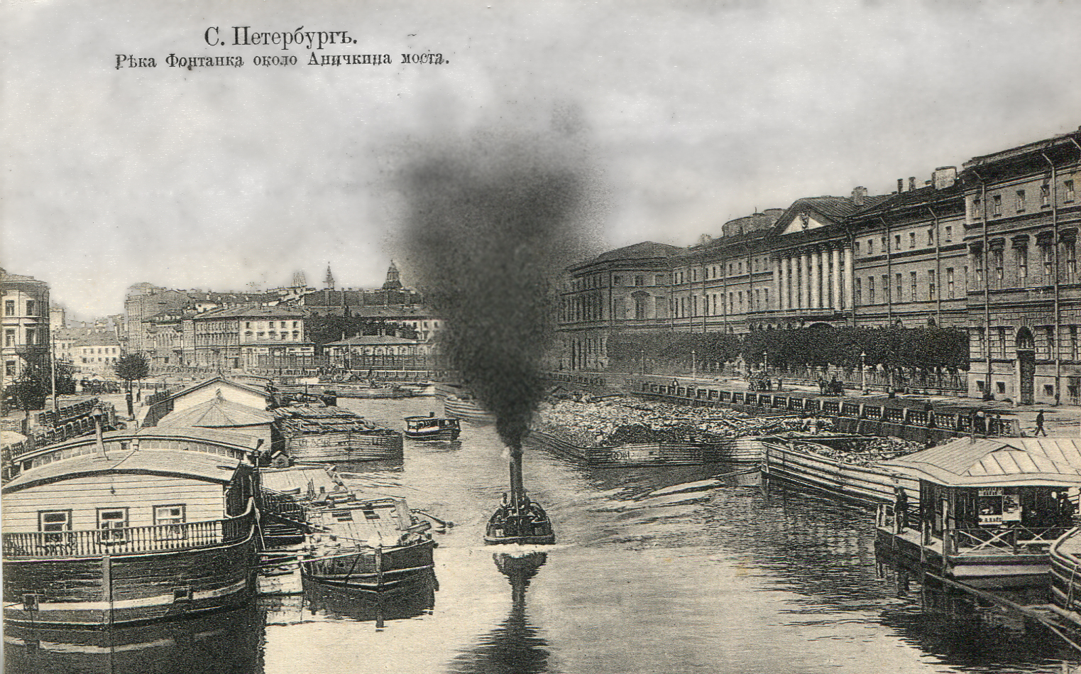 Fontanka river at Anichkow bridge